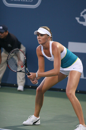 Daniela Hantuchová prepares to return Anna Chakvetadze's serve during the semifinals of the Bank of the West Classic 2007.